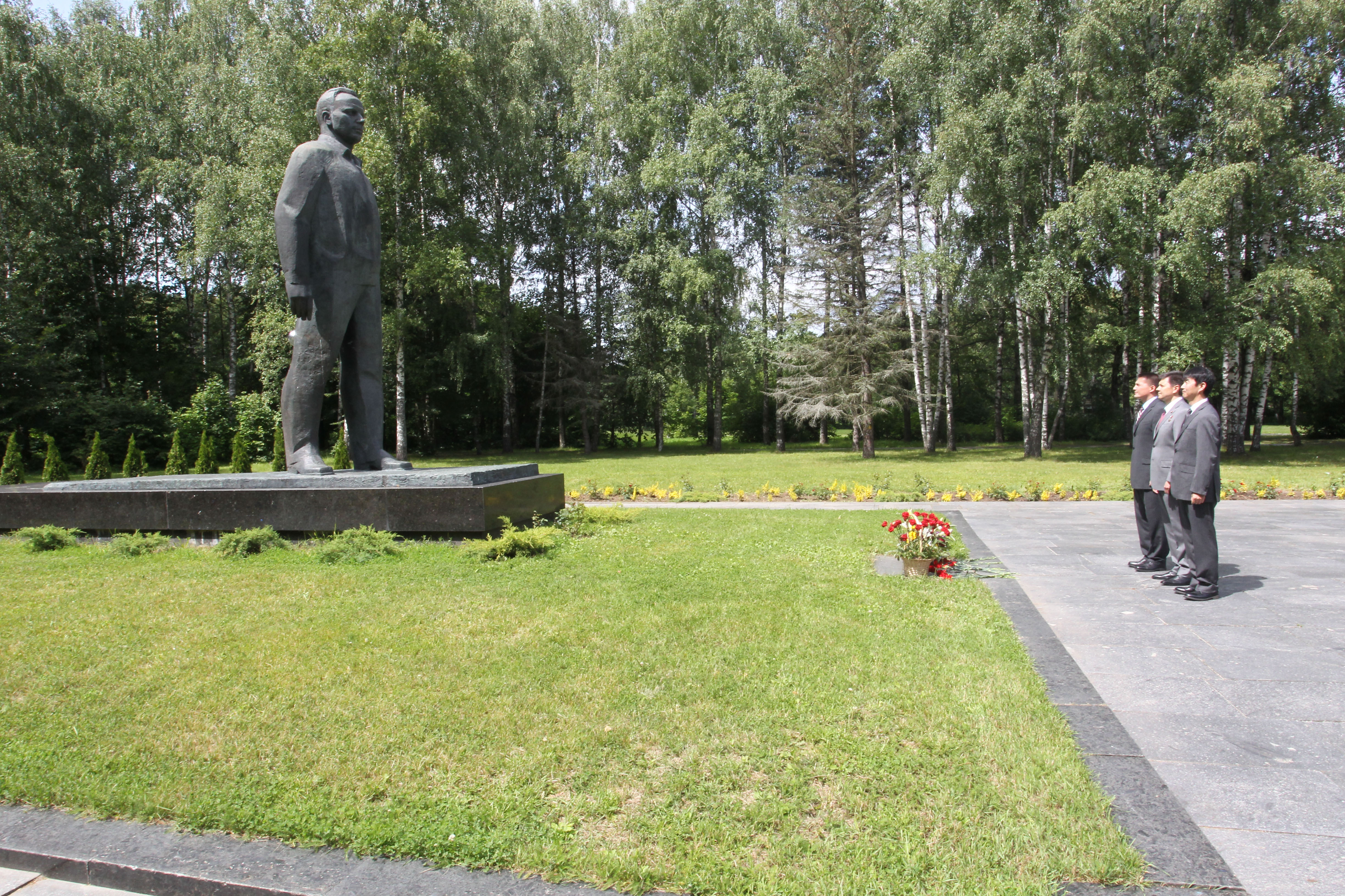 At the Gagarin Cosmonaut Training Center in Star City, Russia, Expedition 44/45 crewmembers Kjell Lindgren of NASA, Oleg Kononenko of the Russian Federal Space Agency (Roscosmos) and Kimiya Yui of the Japan Aerospace Exploration Agency pay homage to Yuri Gagarin, the first human to fly in space, during a traditional ceremony July 8 in which they laid flowers at his statue. Lindgren, Kononenko and Yui will launch on their Soyuz TMA-17M spacecraft from the Baikonur Cosmodrome in Kazakhstan July 23 for a five-month mission on the International Space Station.